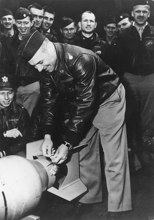 James H. Doolittle wires Japanese (peace) medals to a bomb. Lieutenant Colonel James H. Doolittle, USAAF Wires a Japanese medal to a bomb, for "return" to its originators in the first U.S. air raid on the Japanese Home Islands, April 1942. Photographed on board USS Hornet (CV-8), shortly before LtCol. Doolittle's B-25 bombers were launched to attack Japan. Photo #: NH 102457